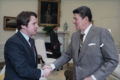 President Ronald Reagan and Tom Ridge (3-8) Meeting to discuss funding for the MX missile with Tom Ridge President Ronald Reagan, Robert McFarlane and Max Friedersdorf (10-12) Talking with Robert McFarlane and Max Friedersdorf President Ronald Reagan and Christopher Smith (13-18) Meeting to discuss funding for the MX missile with Christopher Smith President Ronald Reagan and James Sensenbrenner (20-26) Meeting to discuss funding for the MX missile with James Sensenbrenner